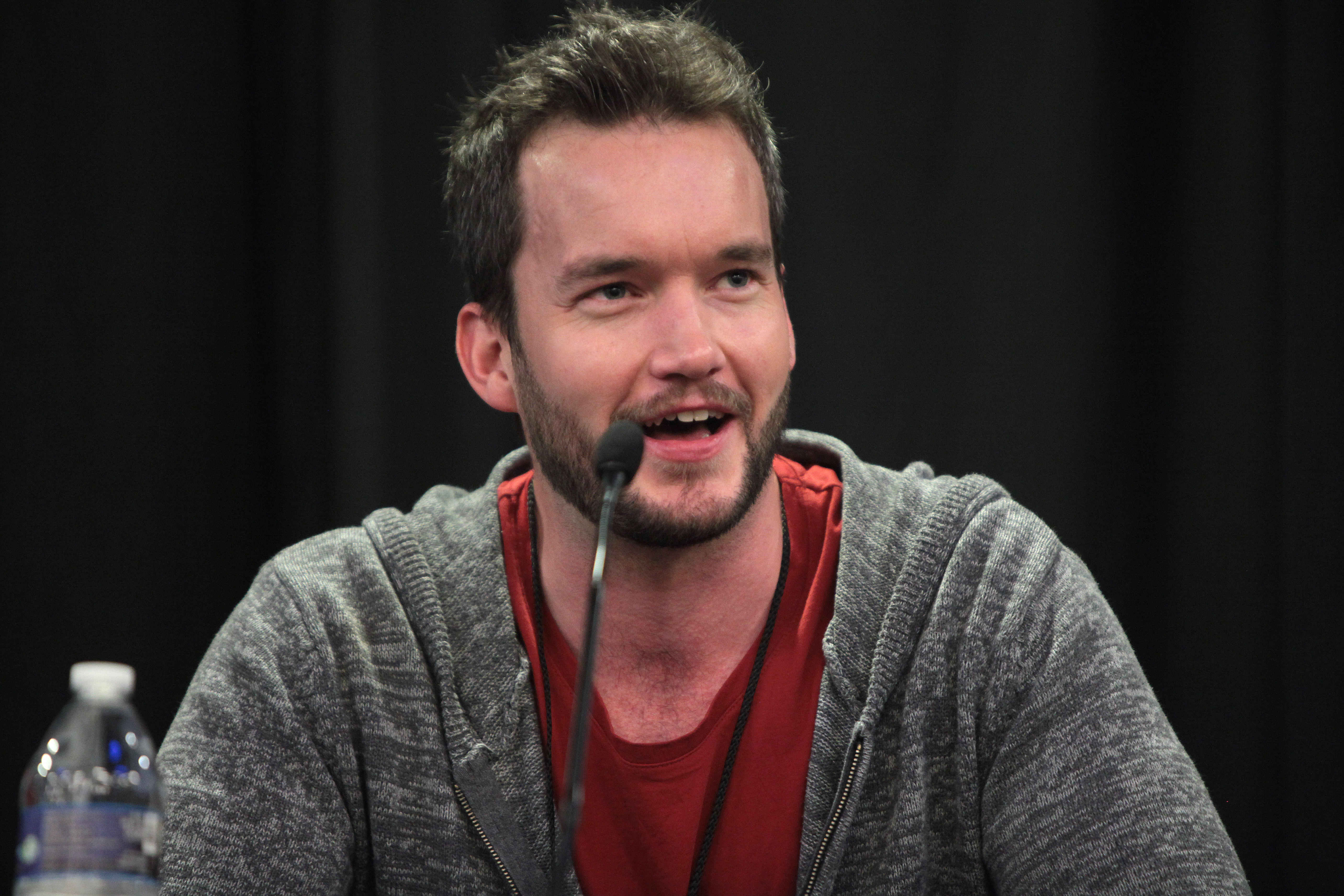 Gareth David-Lloyd speaking at the 2015 Phoenix Comicon Fan Fest at the University of Phoenix Stadium in Glendale, Arizona.